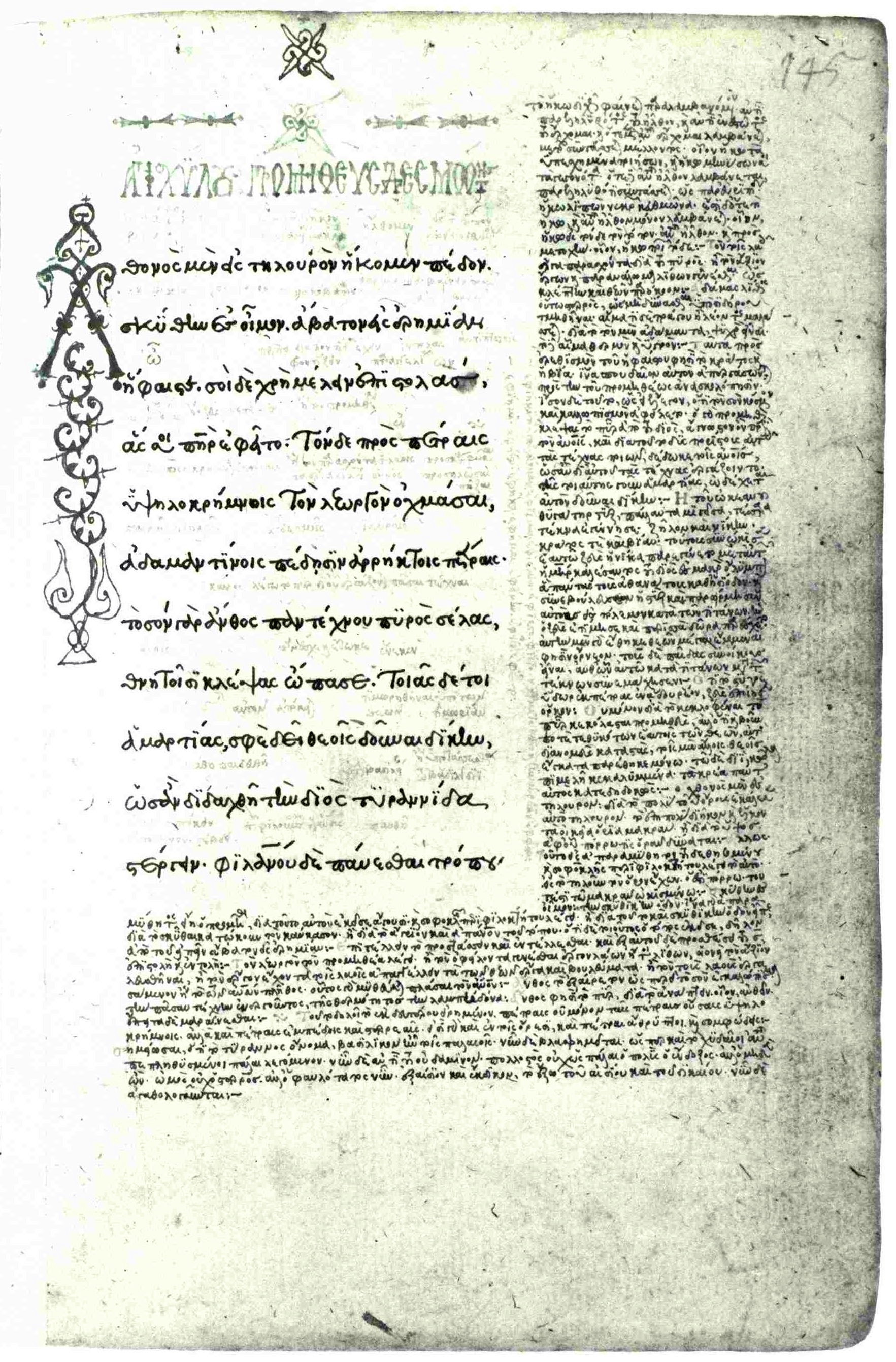 The beginning of the ancient Greek tragedy „Prometheus Bound“ ascribed to Aeschylus in the manuscript Vienna, Österreichische Nationalbibliothek, Cod. Phil. gr. 197, fol. 145r.